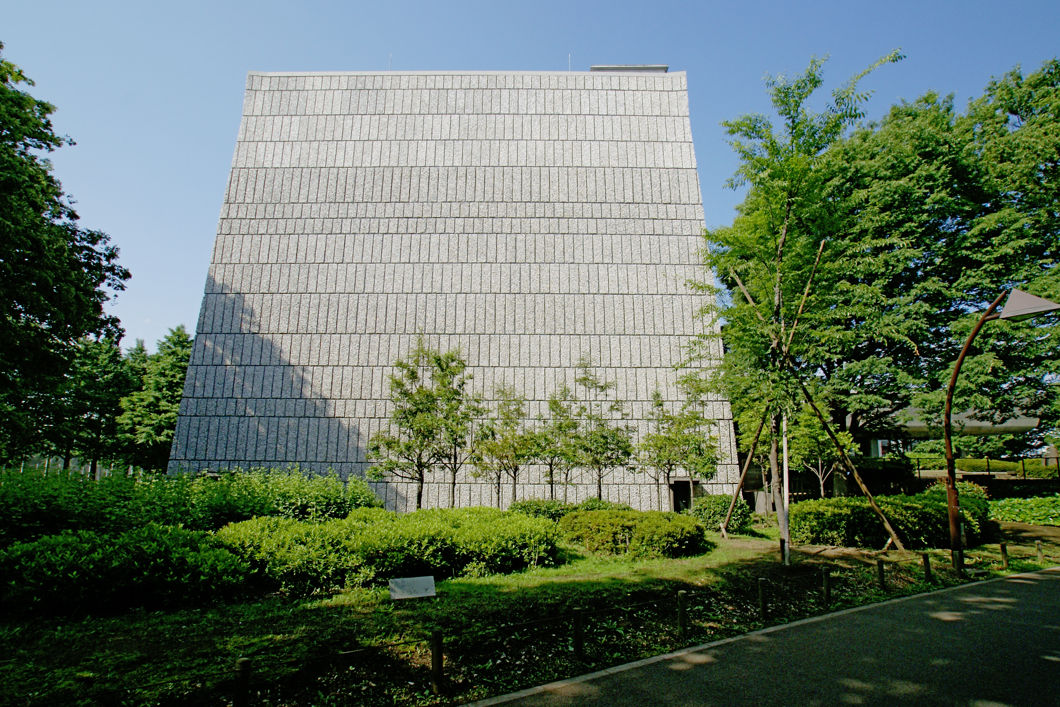 Tokyo Bunka Kaikan, Taito-ku, Tokyo, Japan